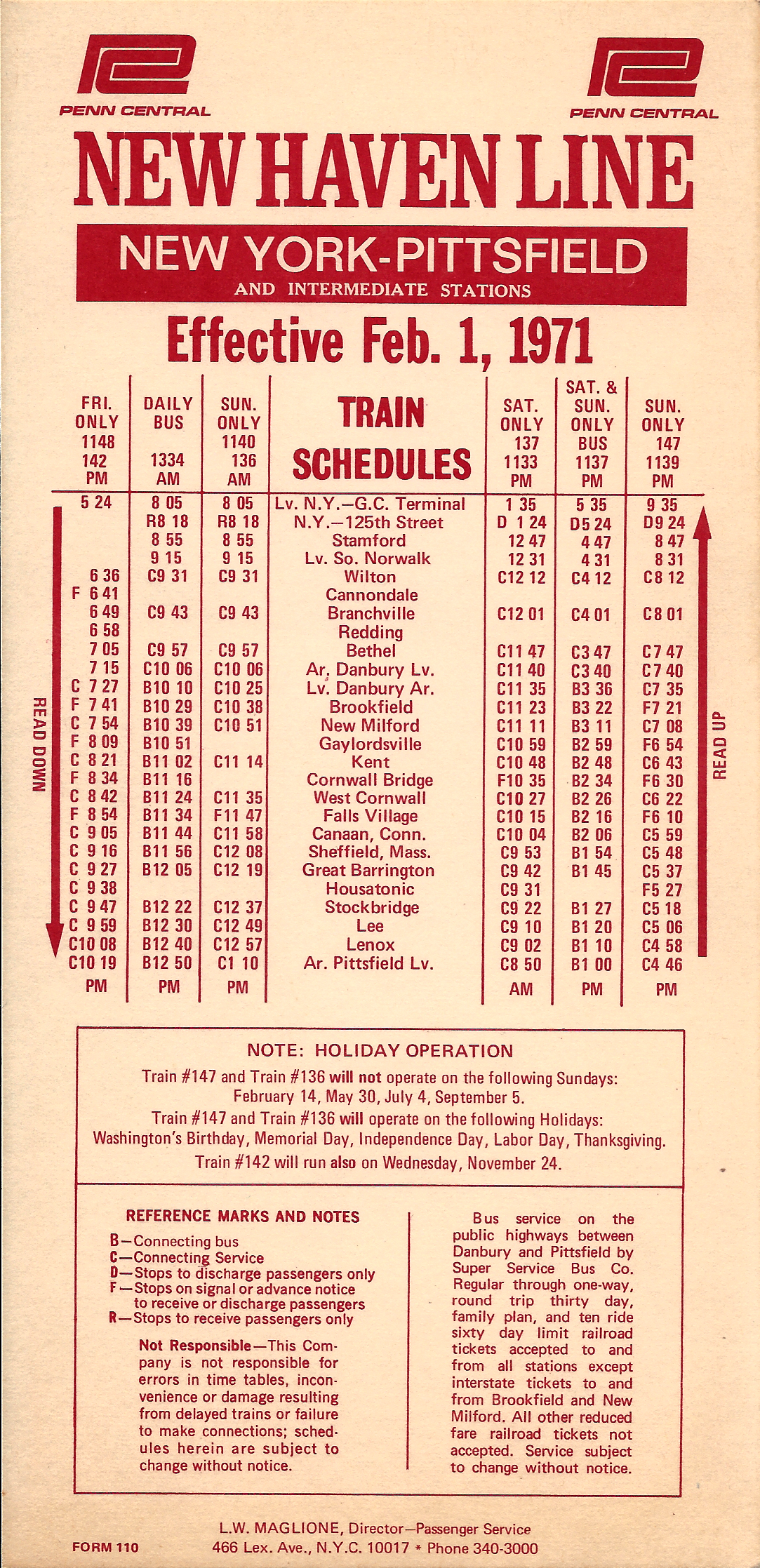 Penn Central Railroad Form 110 effective Feb. 1, 1971 showing the final schedule for train service on the former Housatonic Railroad between Danbury, Conn. and Pittsfield, Mass. At that time the service has been cut down to one train per week.